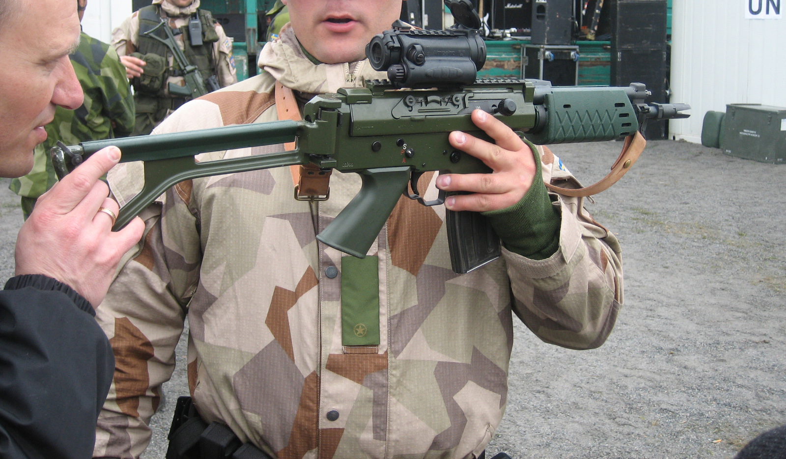 Ak 5D seen here with an Aimpoint red dot sight attached. From a different angle this time.